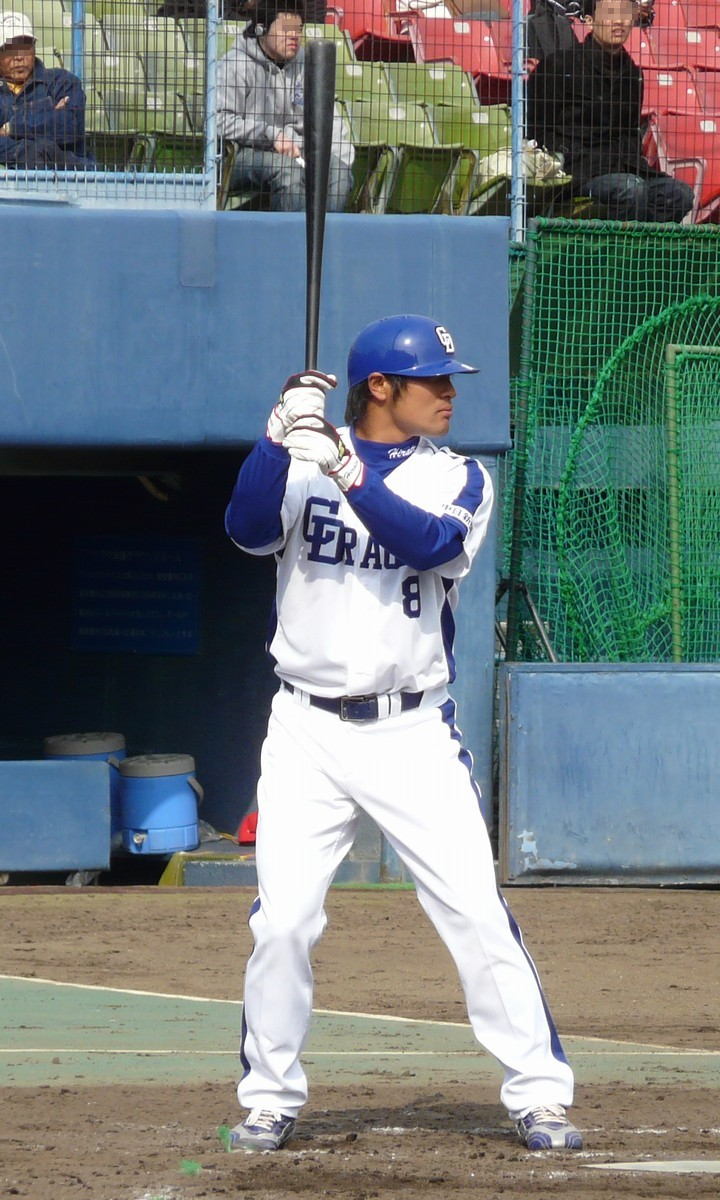 Ryosuke Hirata at Nagoya Baseball Stadium.